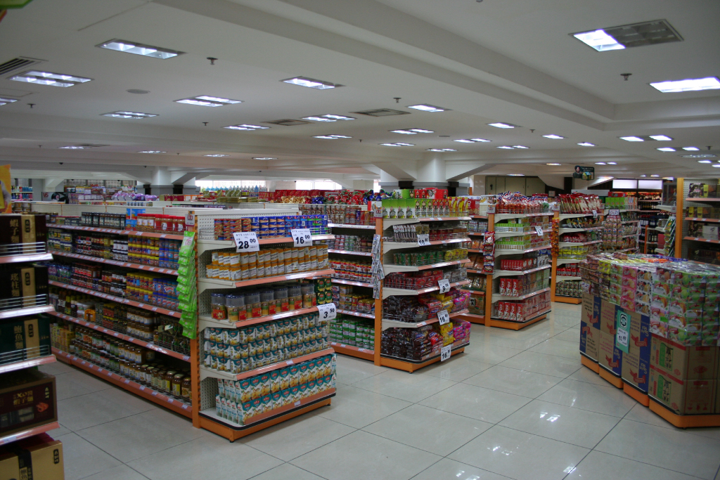 Inside Royal Supermarket